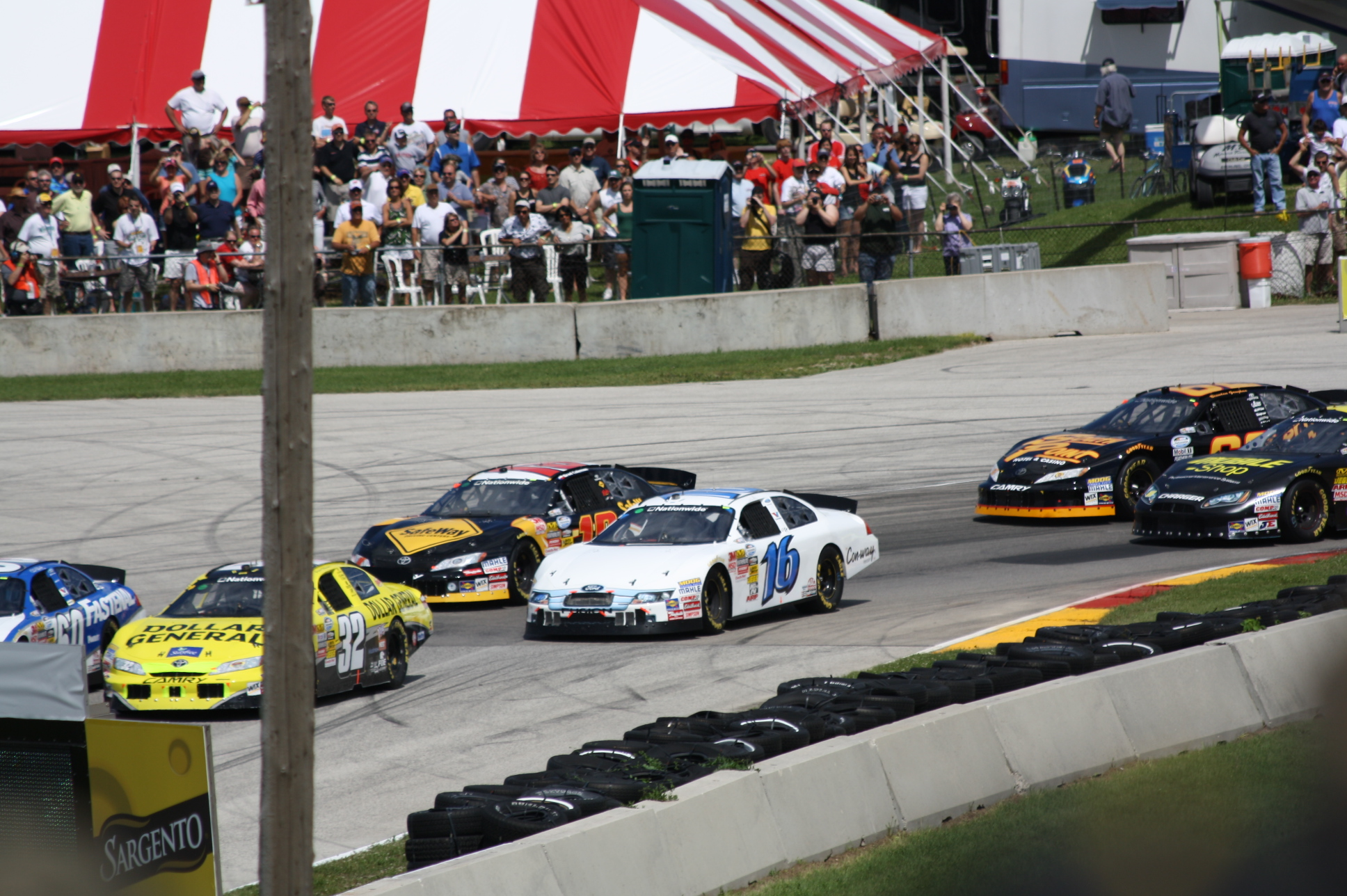 The NASCAR racecars for the field ready to start the 2010 Bucyrus 200 at Road America.